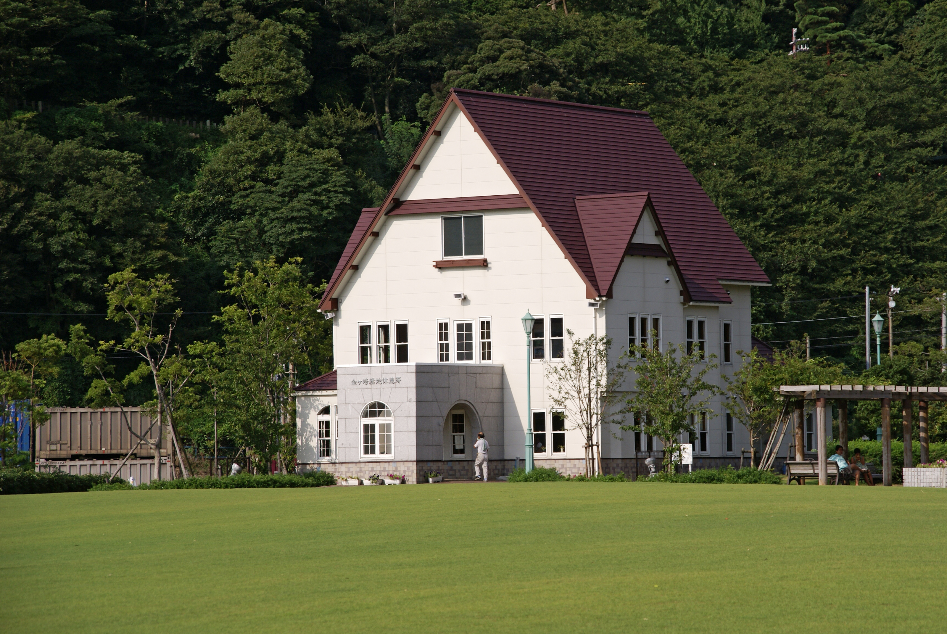 Port of Humanity Tsuruga Museum in Tsuruga, Fukui prefecture, Japan